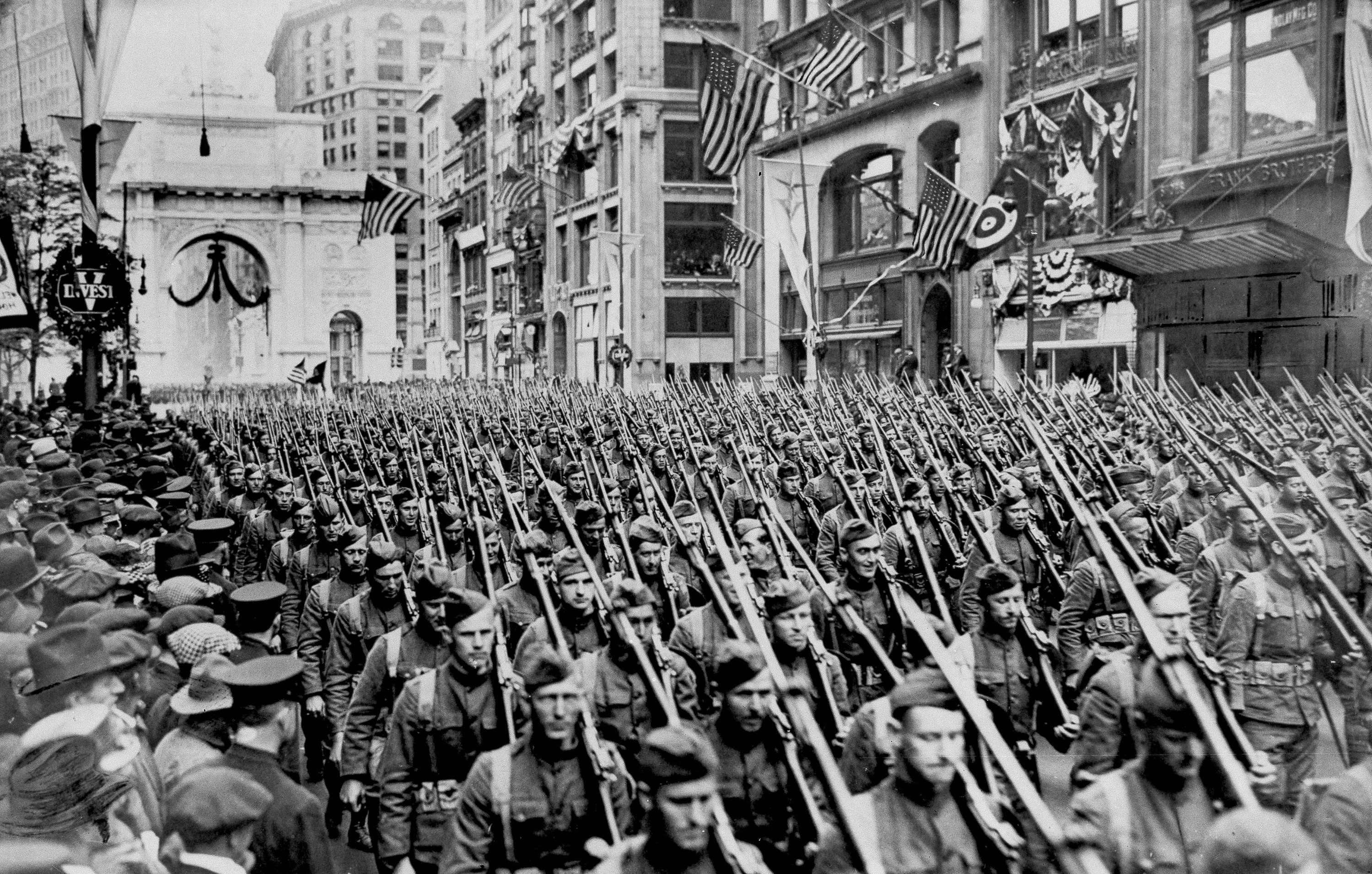 The 1st or Famous Lost Battalion, 308th Infantry. 77th Division, after passing through the Victory Arch on Fifth Avenue, New York, in recent parade